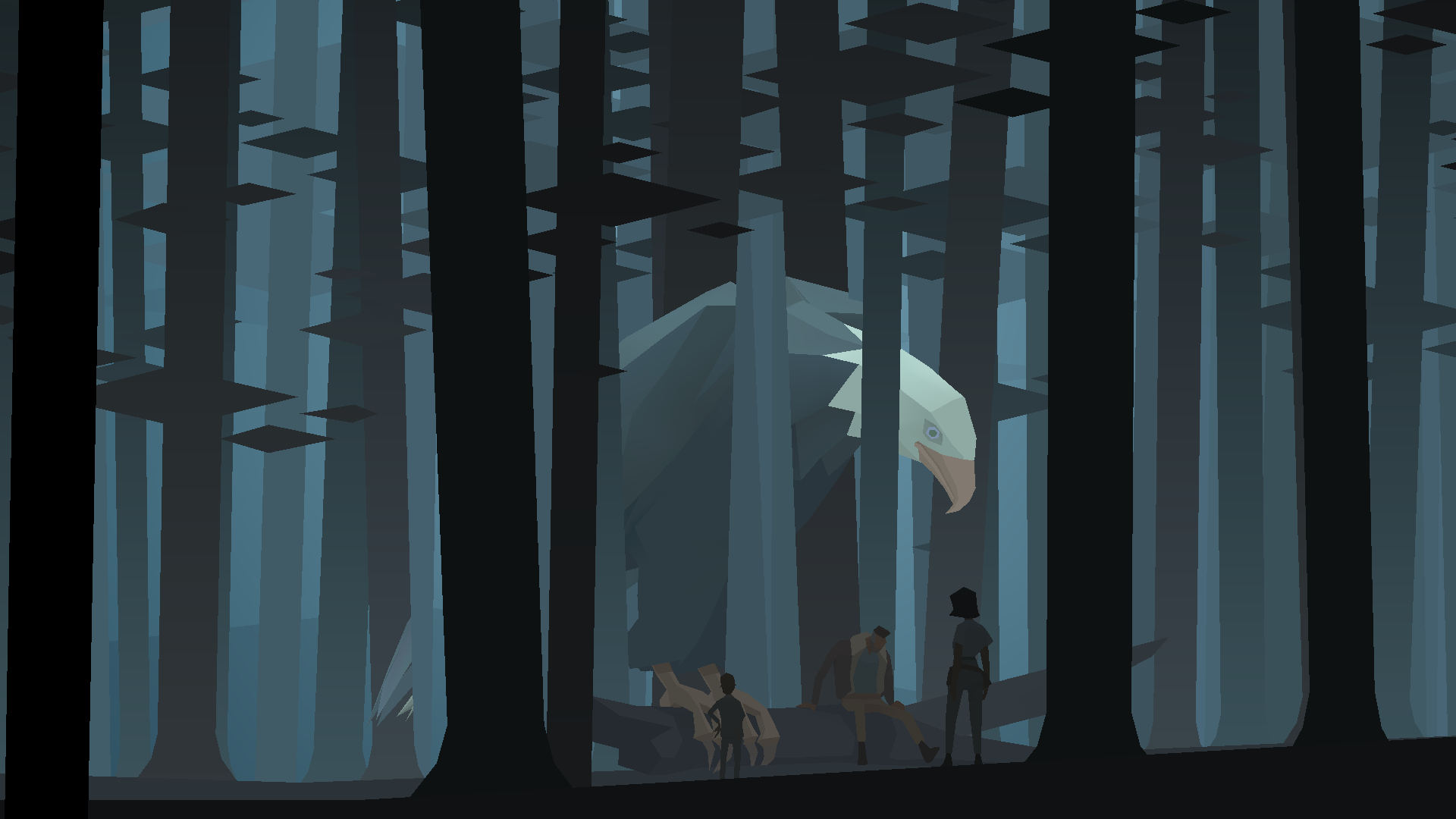 Screenshot of the game Kentucky Route Zero.